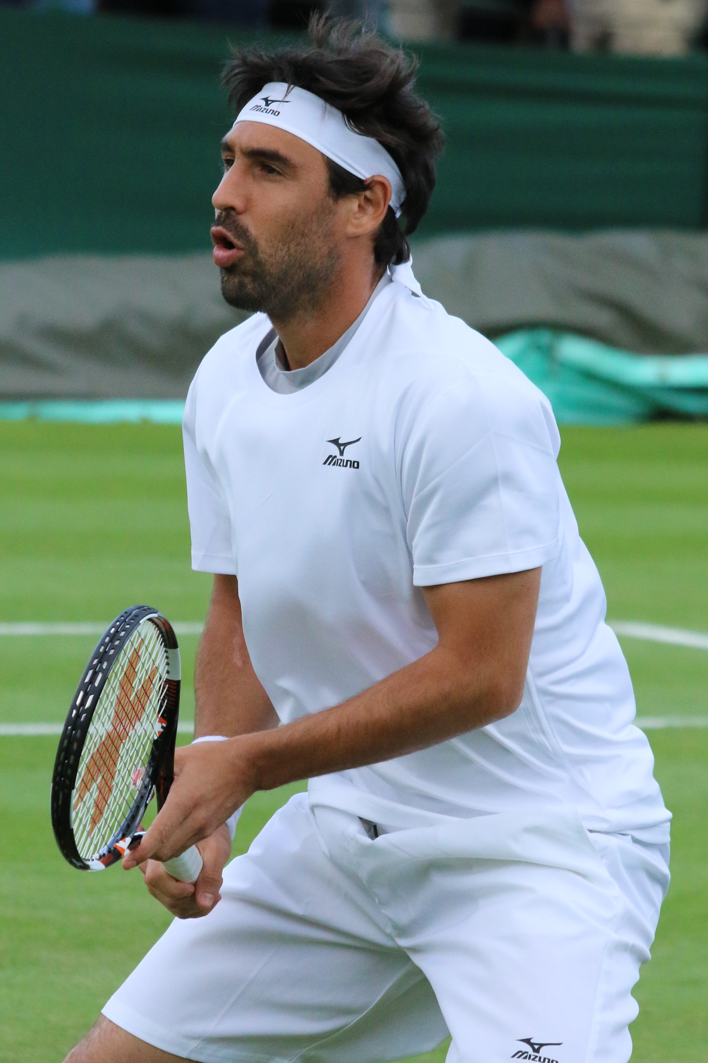 Baghdatis WM16 (1)